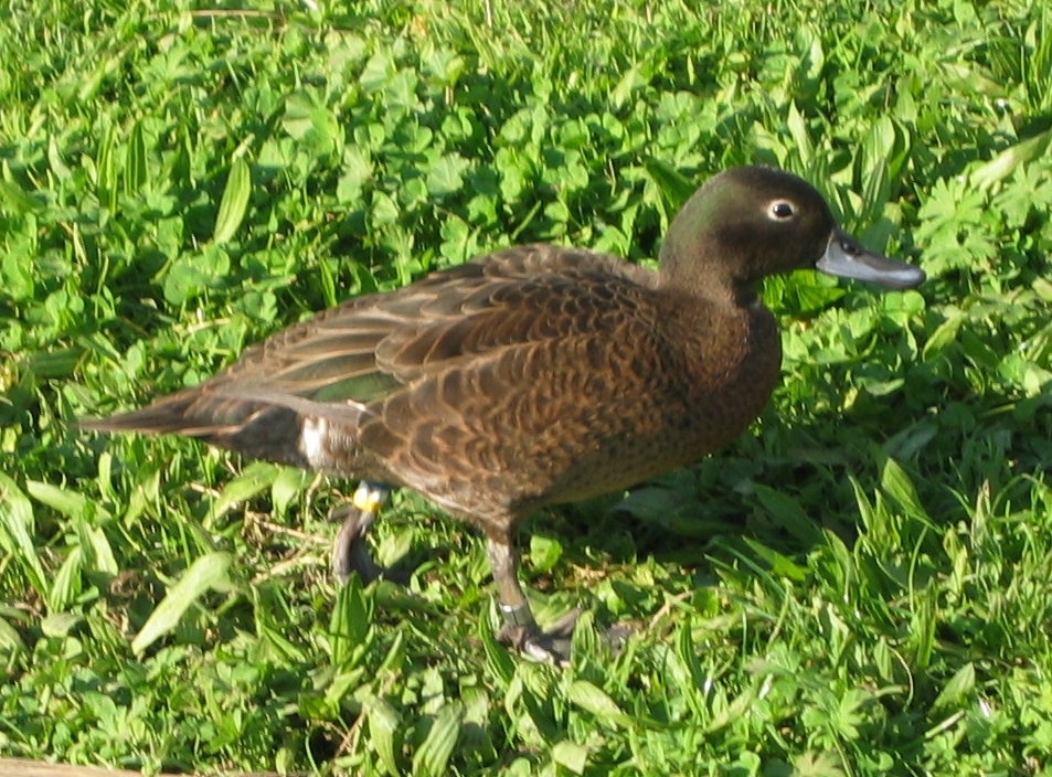 Brown Teal on Tiritiri Matangi Island, Auckland, New Zealand.